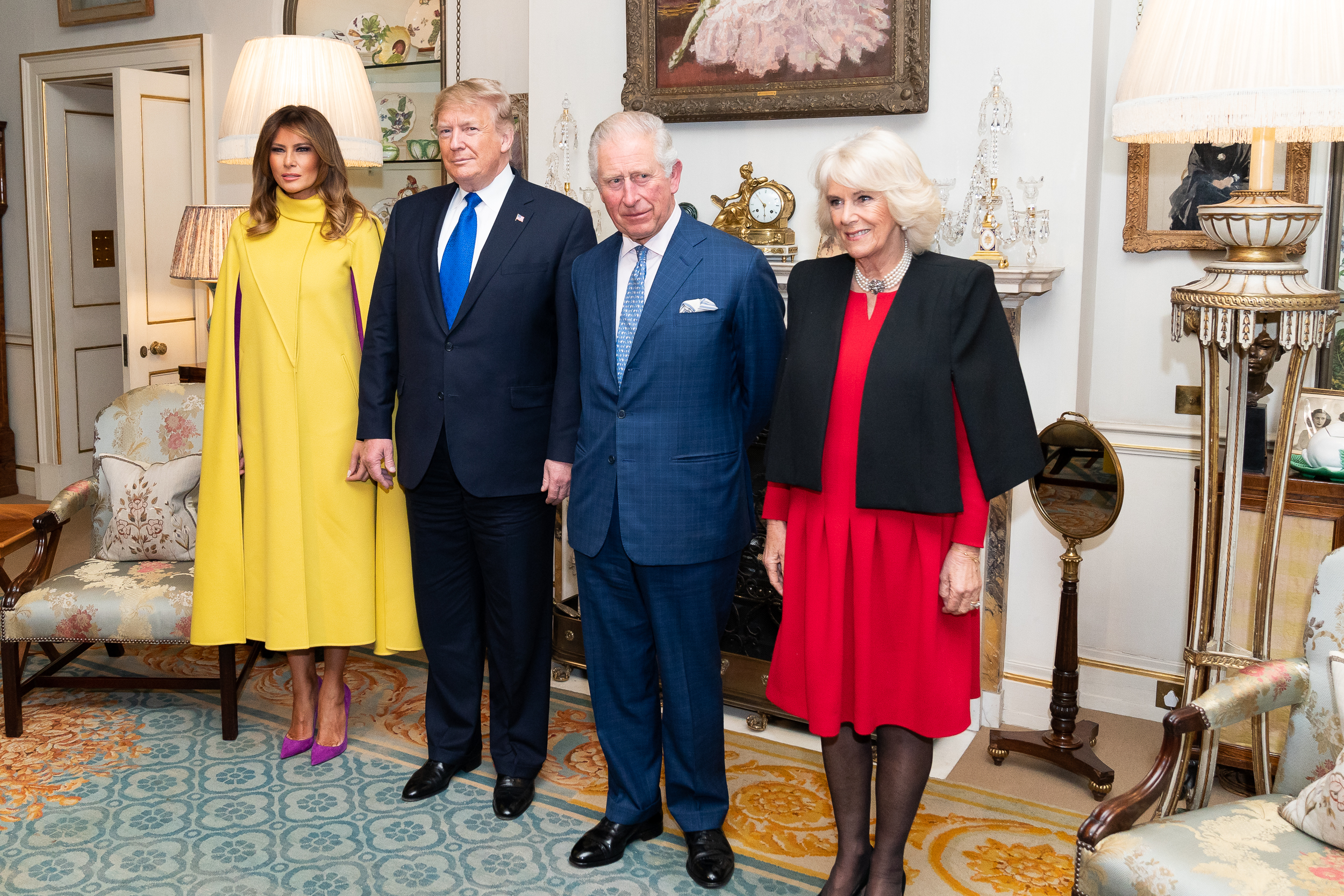 President Donald J. Trump and First Lady Melania Trump pose for a photo with Britain’s Prince of Wales and the Duchess of Cornwall Tuesday, Dec. 3, 2019, at Clarence House in London. (Official White House Photo by Andrea Hanks)